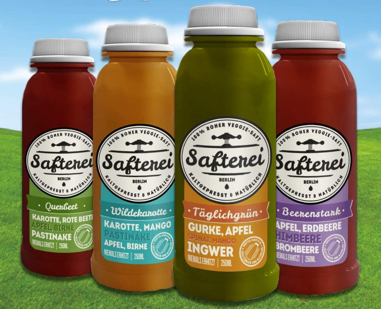 A picture of the 4 different kind of juices from die Safterei